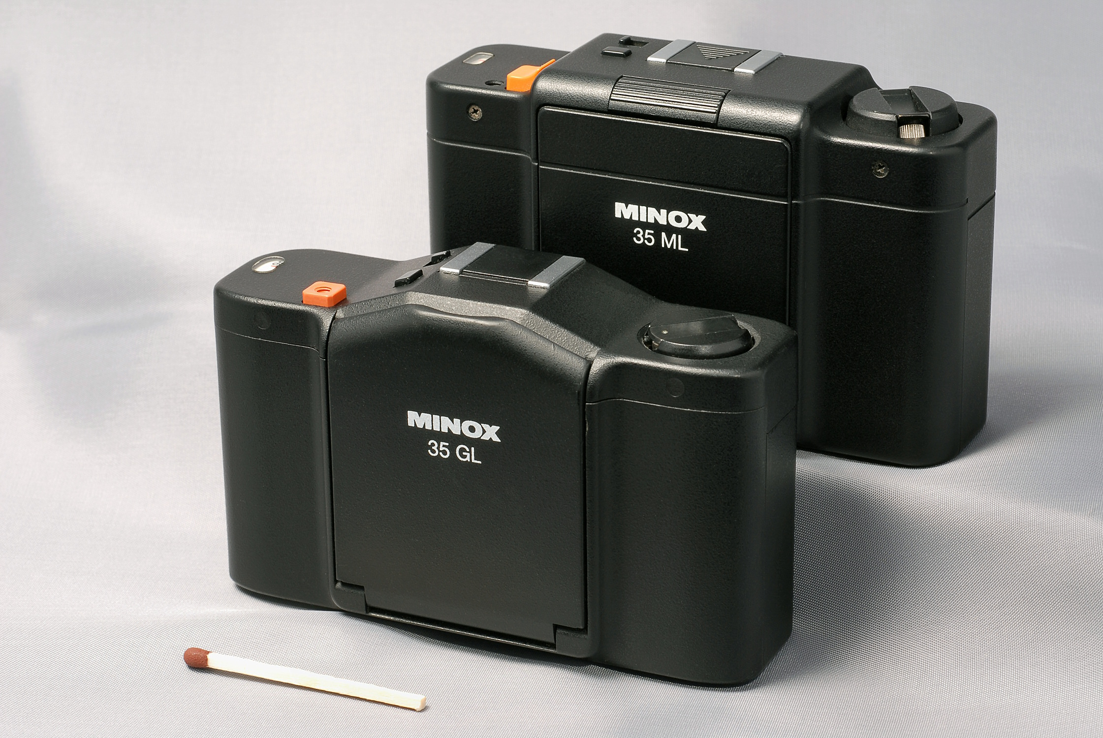 Cameras: Minox 35 GL and ML